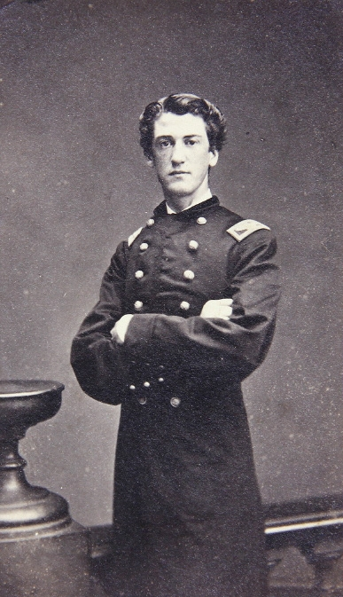 CDV of Col. Lewis T. Barney, 106 New York Infantry Regiment